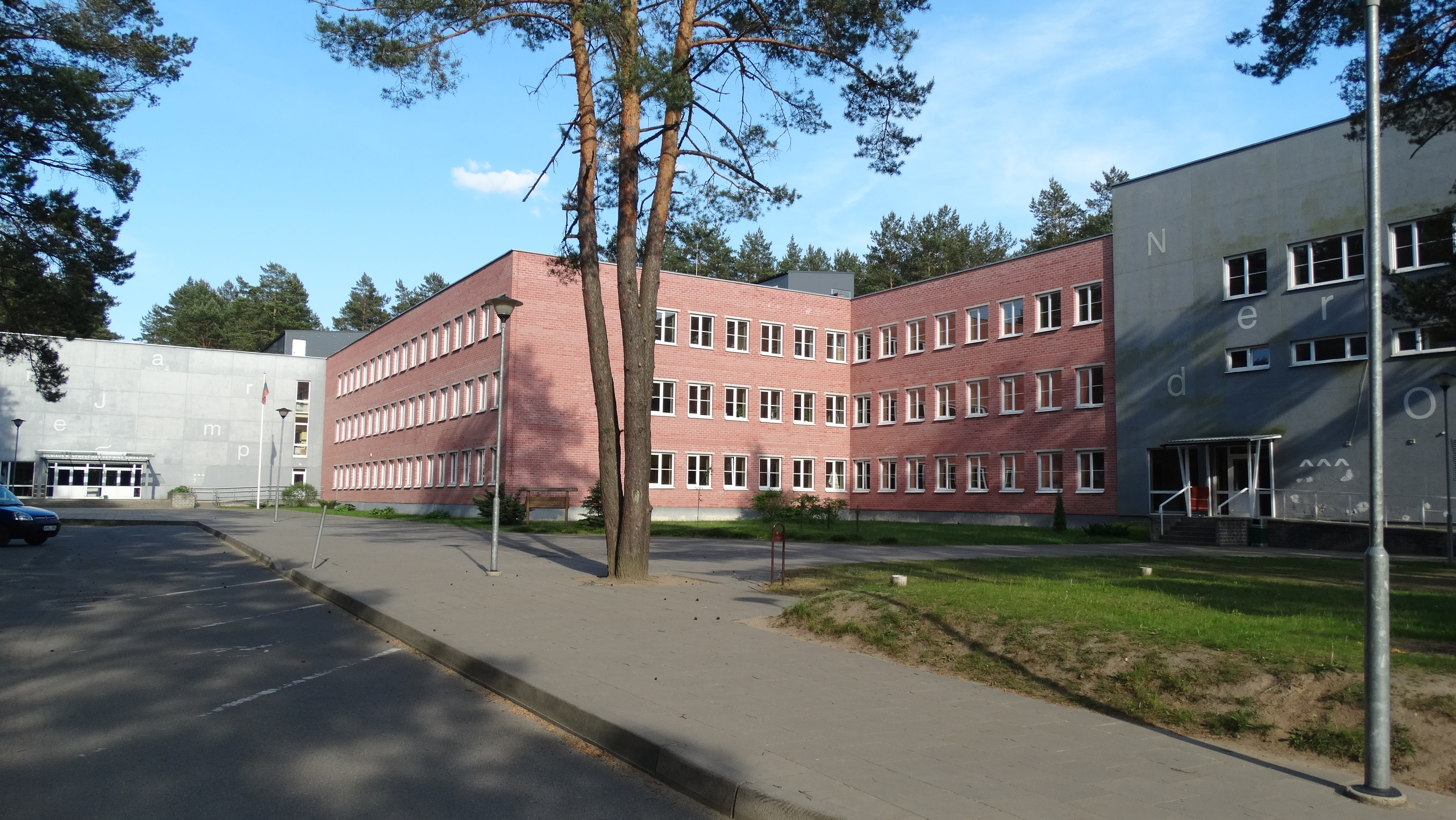 Gediminas Gymnasium, Nemenčinė, Vilnius District, Lithuania